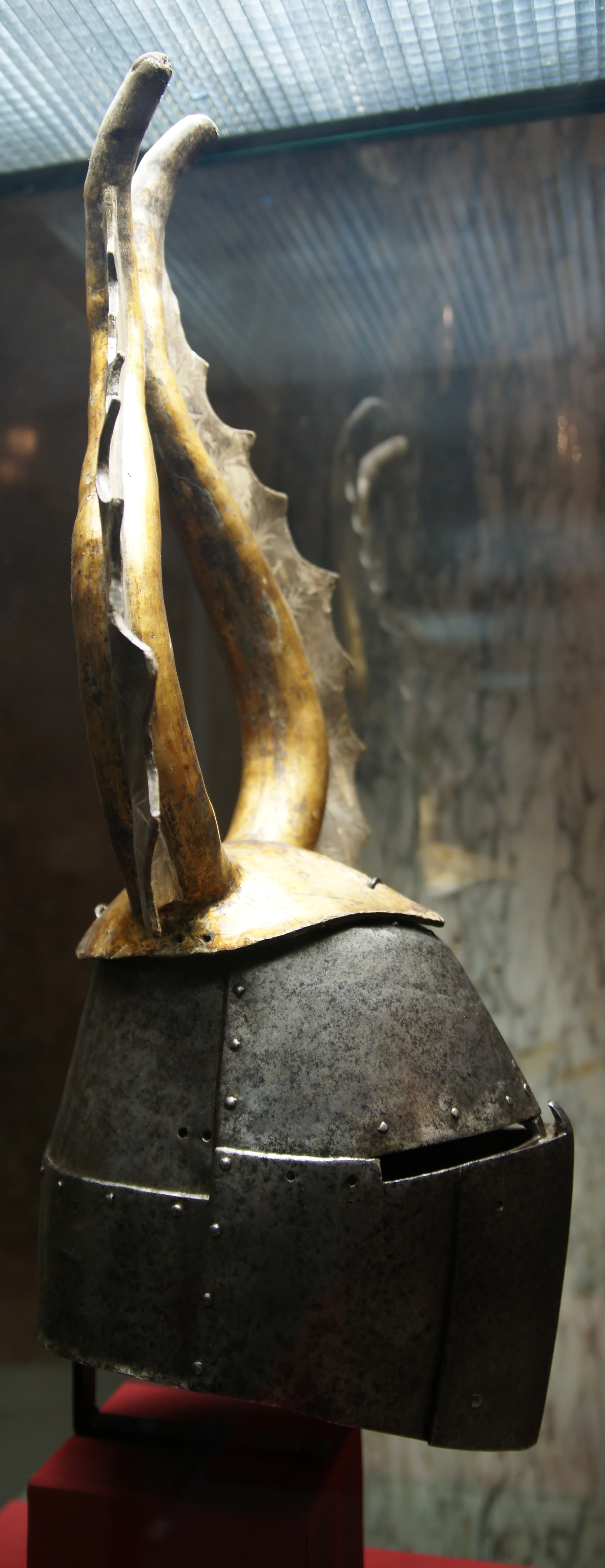 Great helm with decoration (cimier) of Albert von Prankh, Austria, 14th century.